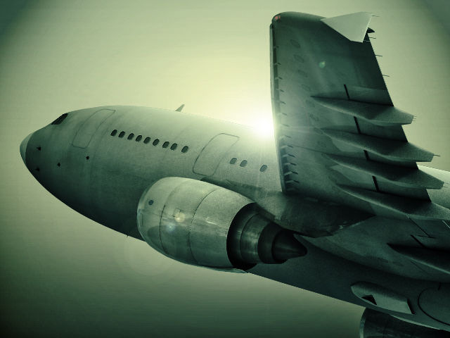 CGI Rendering of an Airbus A300. Rendered in mental ray